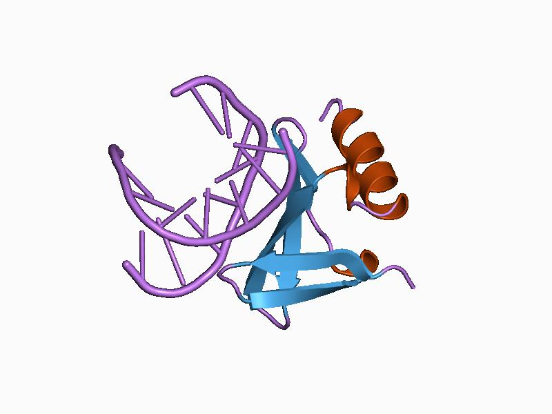 Cartoon representation of the molecular structure of protein registered with 1azp code.